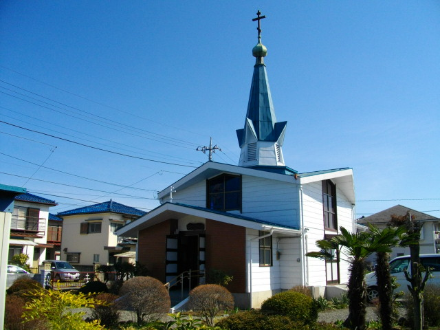 Takasaki Nativity of Our Lord Orthodox Church. The church belongs to the Autonomous Orthodox Church in Japan.